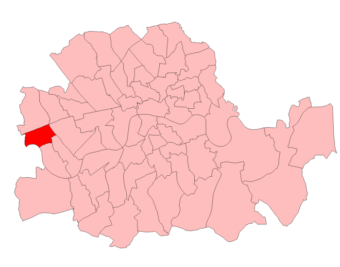 A map of Hammersmith South constituency within the London County Council area, as it existed from 1918 to 1949.